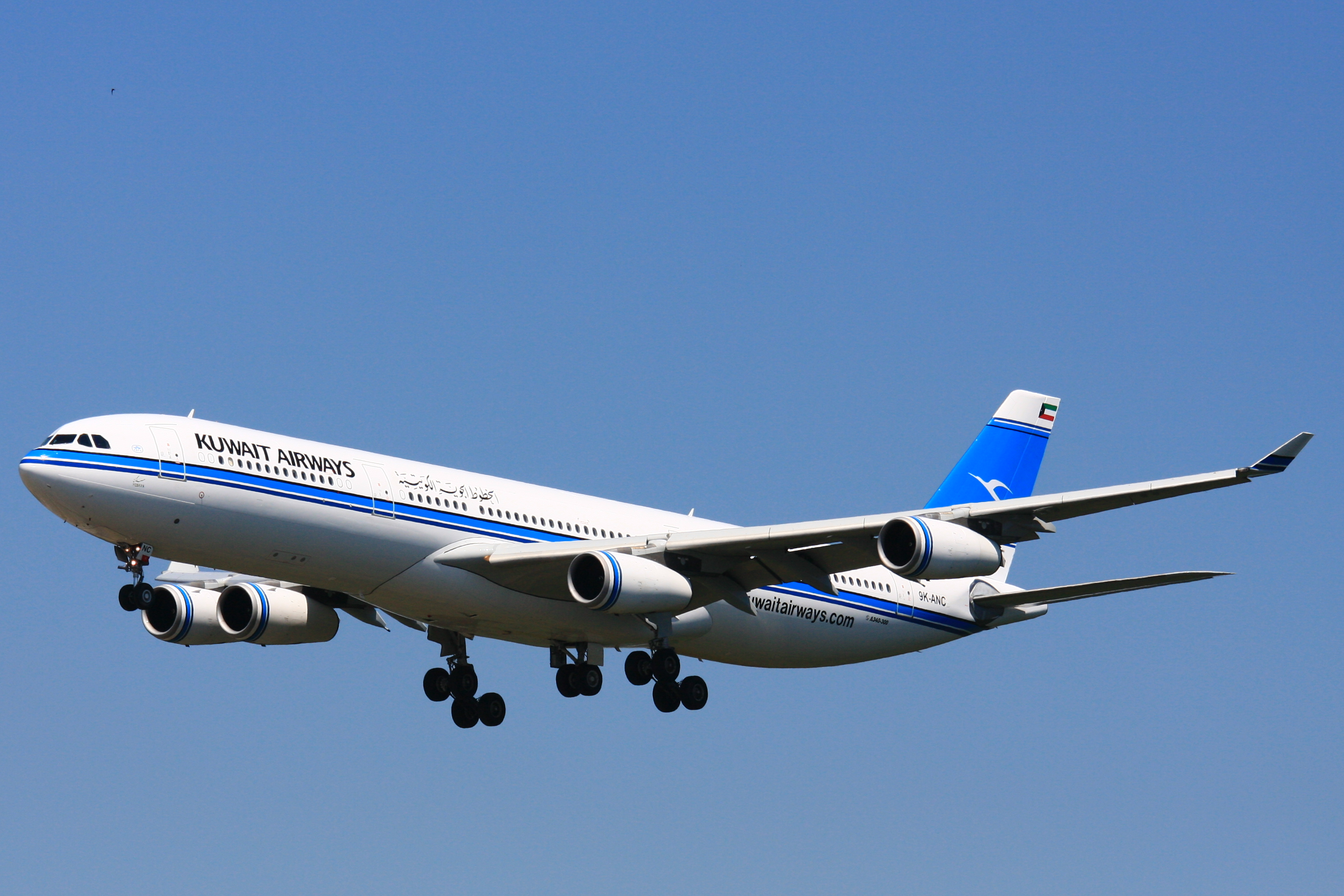 A A340-300 of Kuwait Airways landing at Frankfurt Airport